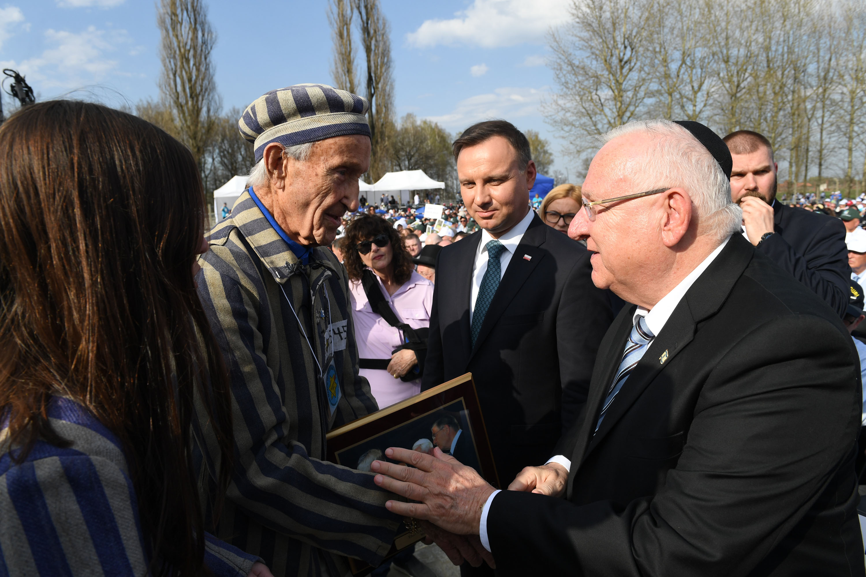 President of Israel, Reuven Rivlin, leads the March of the Living in Poland with the Chief of Staff, the Chief of Police, the head of the Mossad and the head of the Shin Bet security service on Thursday, April 12, 2018. Photo credit: Kobi Gideon GPO.